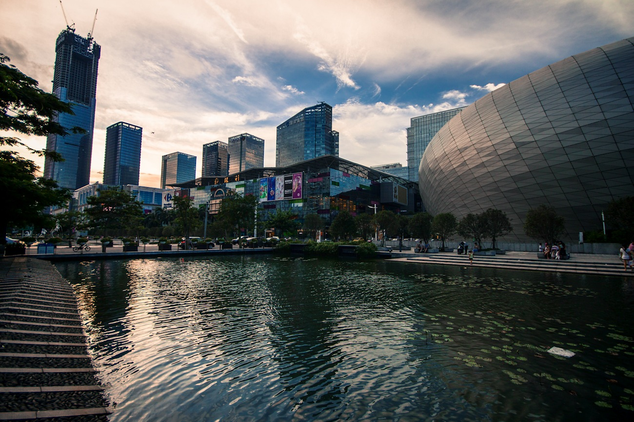 Nanshan District, Shenzhen, China